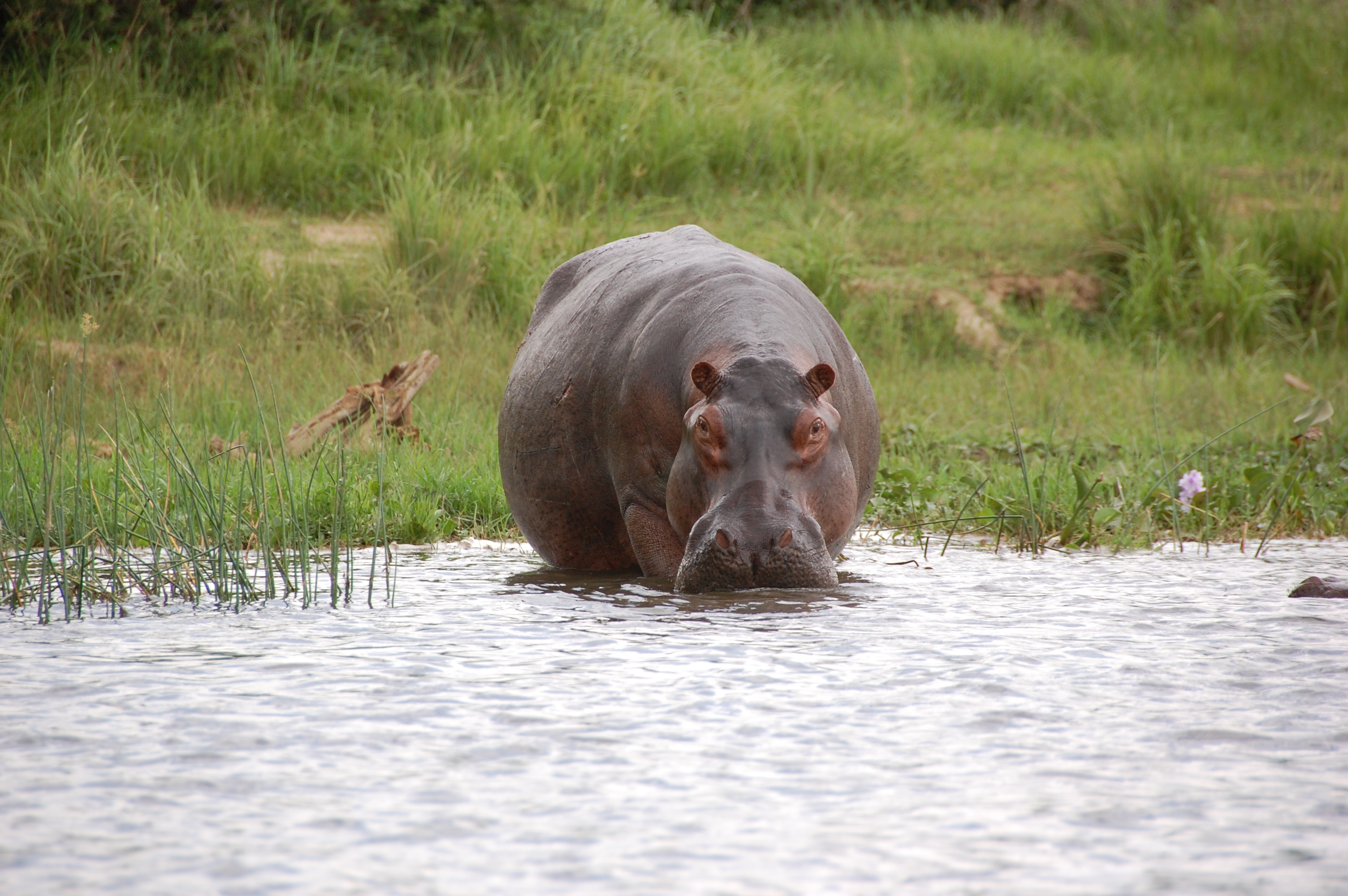 Hippo entering the water in Uganda